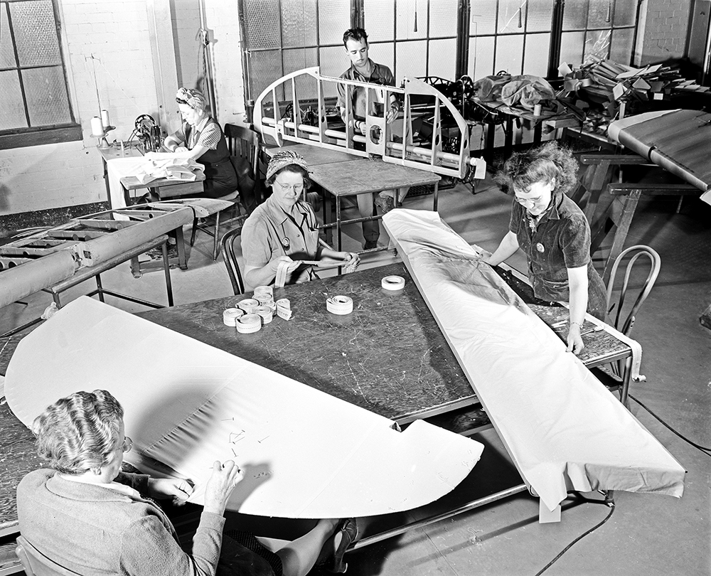 Title: [Airplane Cloth Room, Pepperell Manufacturing Company] Creator: Richie, Robert Yarnall, 1908-1984 Date: February 1943 Series: Series 6: Negatives and Color Transparencies Negative Series: 2509 Place: San Antonio, Texas Description: Workers assembling aircraft wing and tail components by sewing aircraft covering fabric over prepared aircraft open structures. Physical Description: 1 negative: film, black and white; 12.6 x 10.1 cm File: ag1982_0234_2509_28_pepperellmfgco_sm_opt.jpg Rights: Please cite DeGolyer Library, Southern Methodist University when using this file. A high-resolution version of this file may be obtained for a fee. For details see the web page. For other information, . For more information